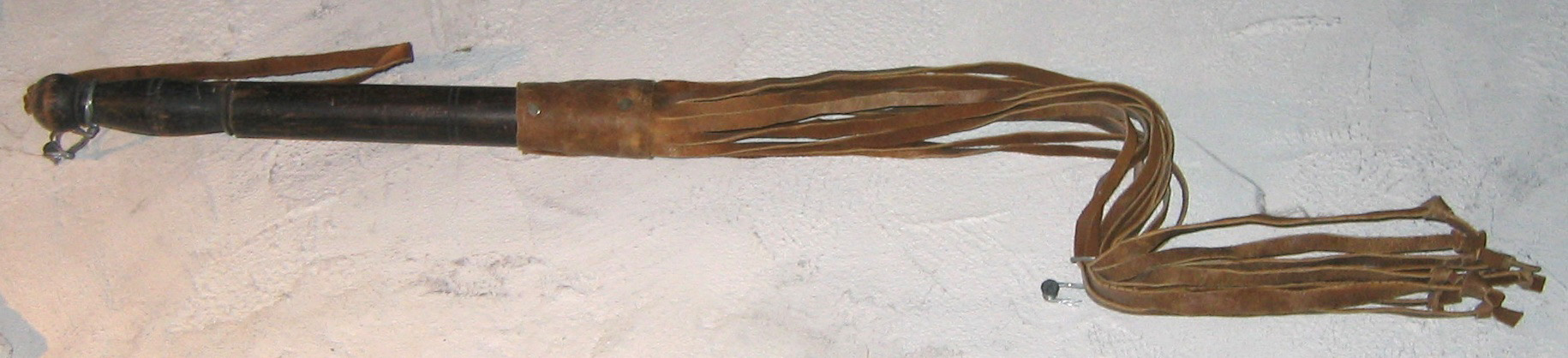 Cat o' nine tails at the torture museum in Freiburg im Breisgau